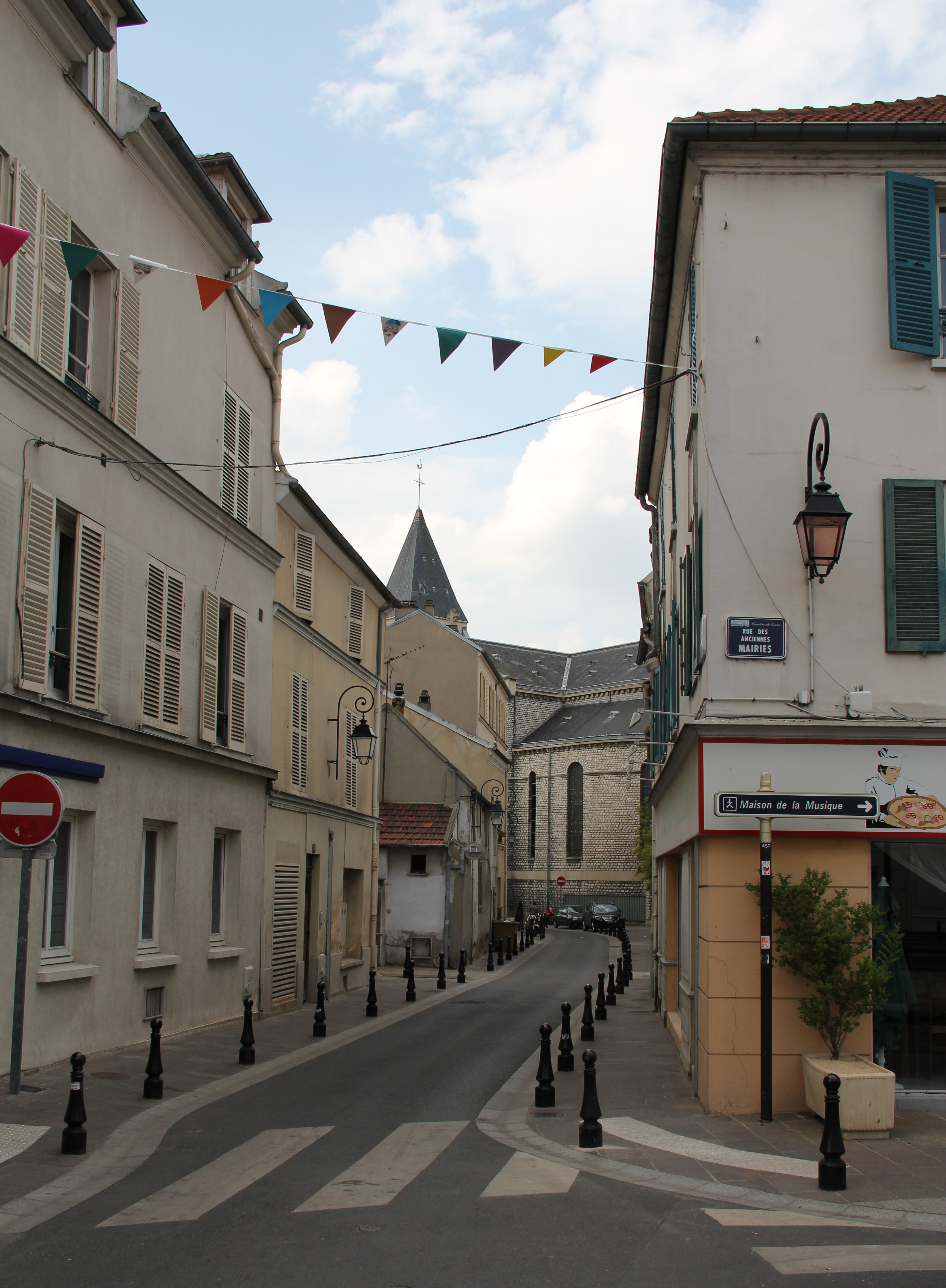 Church Street, in Nanterre, Hauts-de-Seine, France.